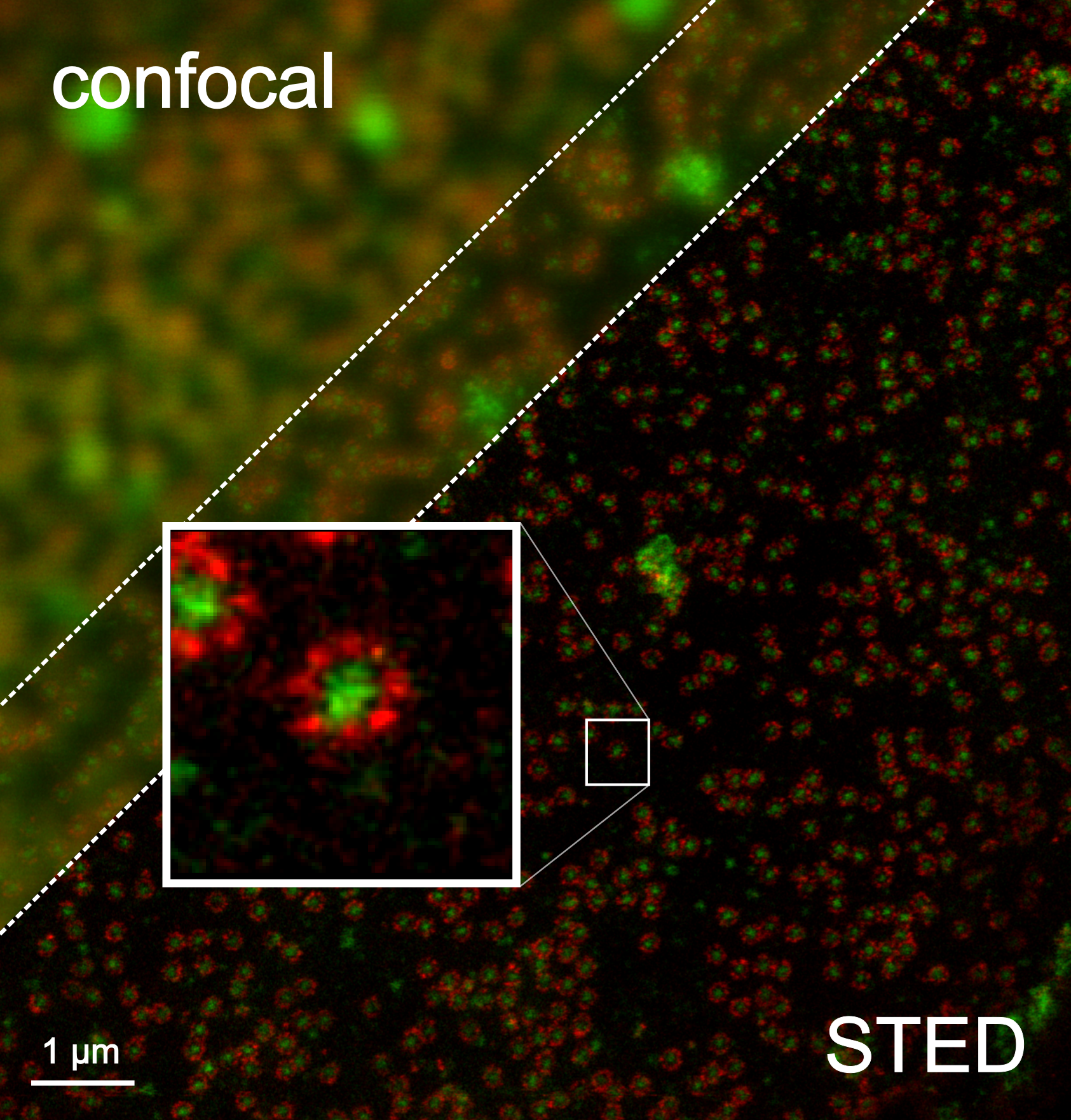 The image demonstrates the difference in resolution of confocal and STED microscopy. It shows proteins of the nucleus, labelled with fluorescent dyes, imaged with a STED microscope. Red: gp210 Green: Several proteins in the central channel